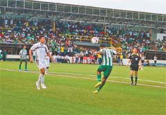 Juan Goban Stadium